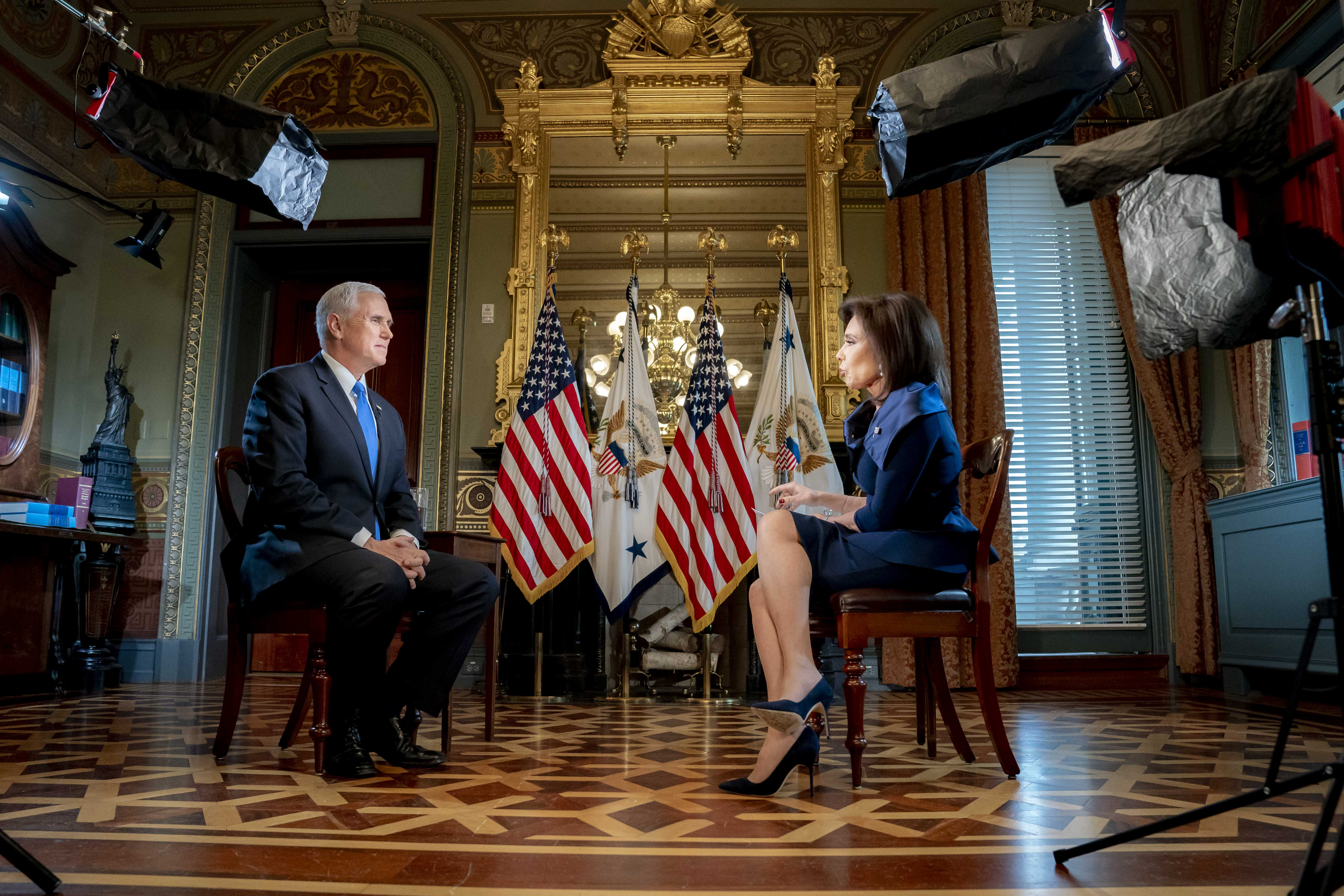 Vice President Mike Pence participates in a taped TV interview with Judge Jeanine Pirro of Fox News Friday, Dec. 6, 2019, in the Vice President’s Ceremonial Office in the Eisenhower Executive Office Building at the White House. (Official White House Photo by D. Myles Cullen)